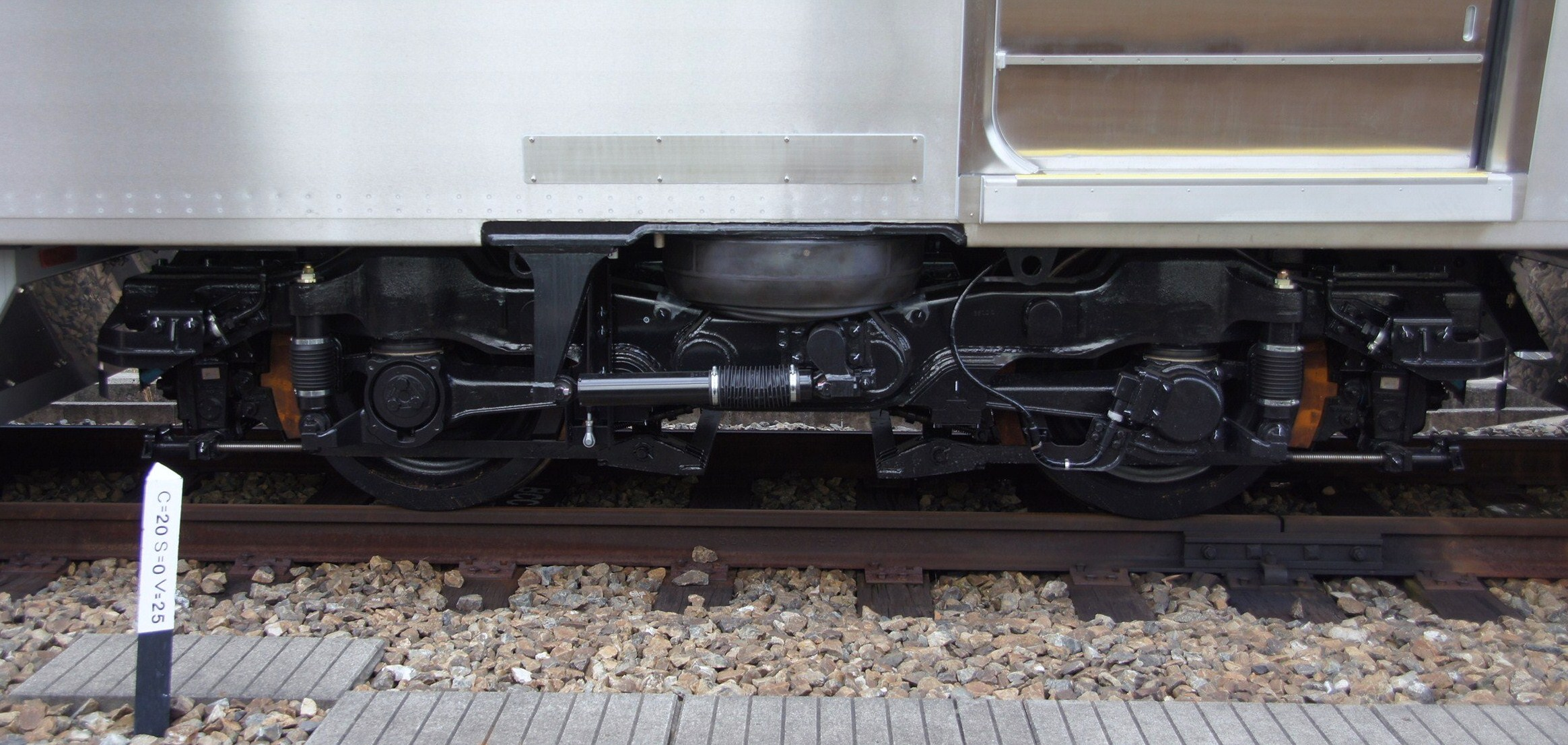 N-TR733 trailer bogie on a JR Hokkaido 733 series EMU on delivery at Hyogo station